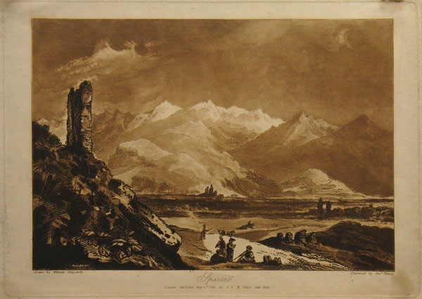 Mezzotint view of Sparta, Greece.